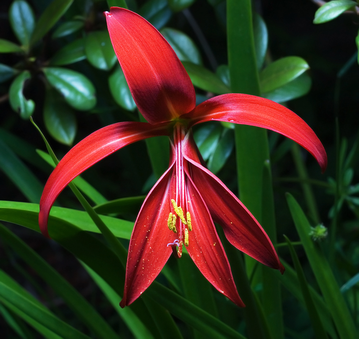 Sprekelia formosissima in Tasmania, Australia Camera data Camera Canon EOS 400D Lens Canon EF 70-200mm f4L w/ 12mm extension tube Flash Shoot through umbrella left Focal length 126 mm Aperture f/11 Exposure time 1/160 s Sensivity ISO 200